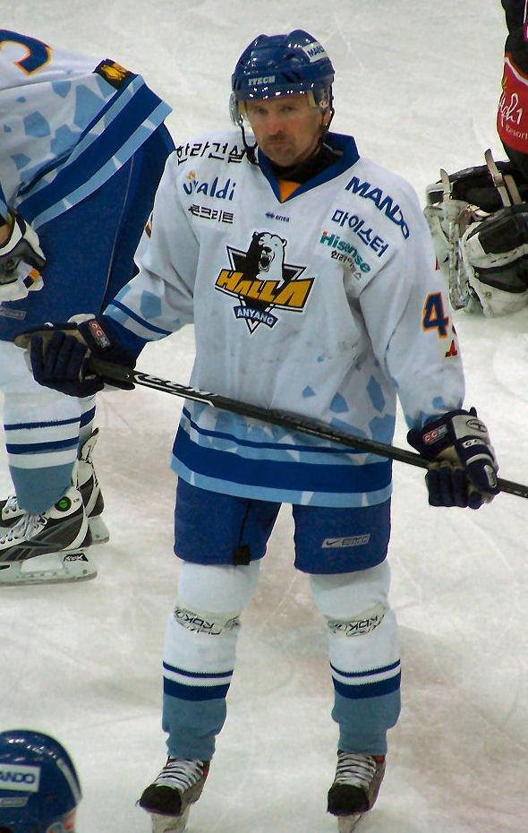 Patrick Martinec of the Anyang Halla in an away game.